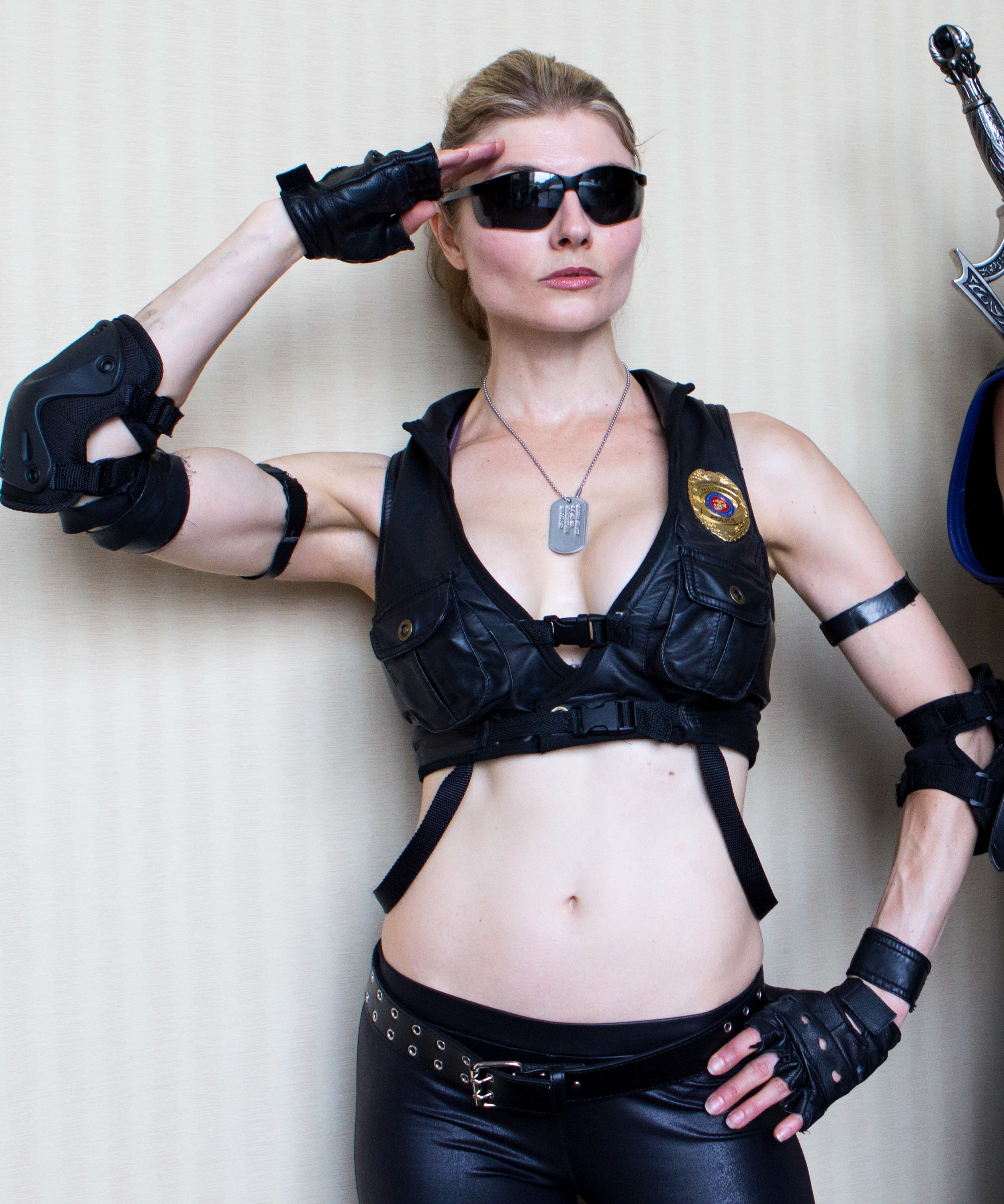 Dan & Deanna Krahn-Sarkar cosplaying as Sub-Zero (right) and Sonja Blade (left), from the Mortal Kombat franchise, at Dragon*Con 2013.